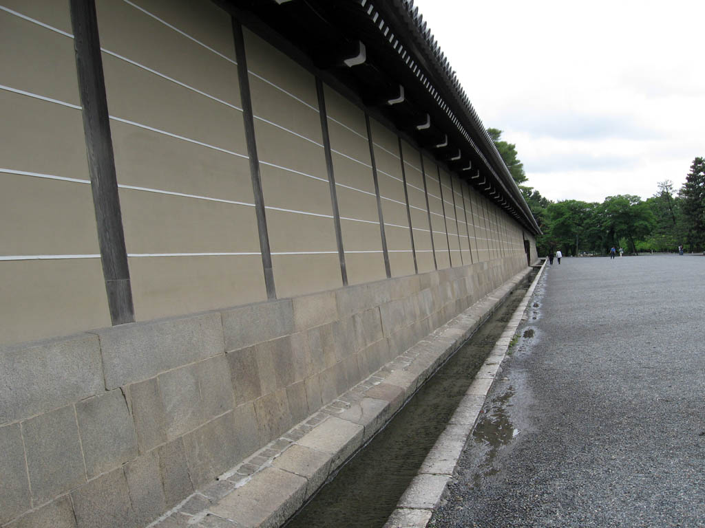 Wall of Kyoto Imperial Palace. 京都御所の築地塀